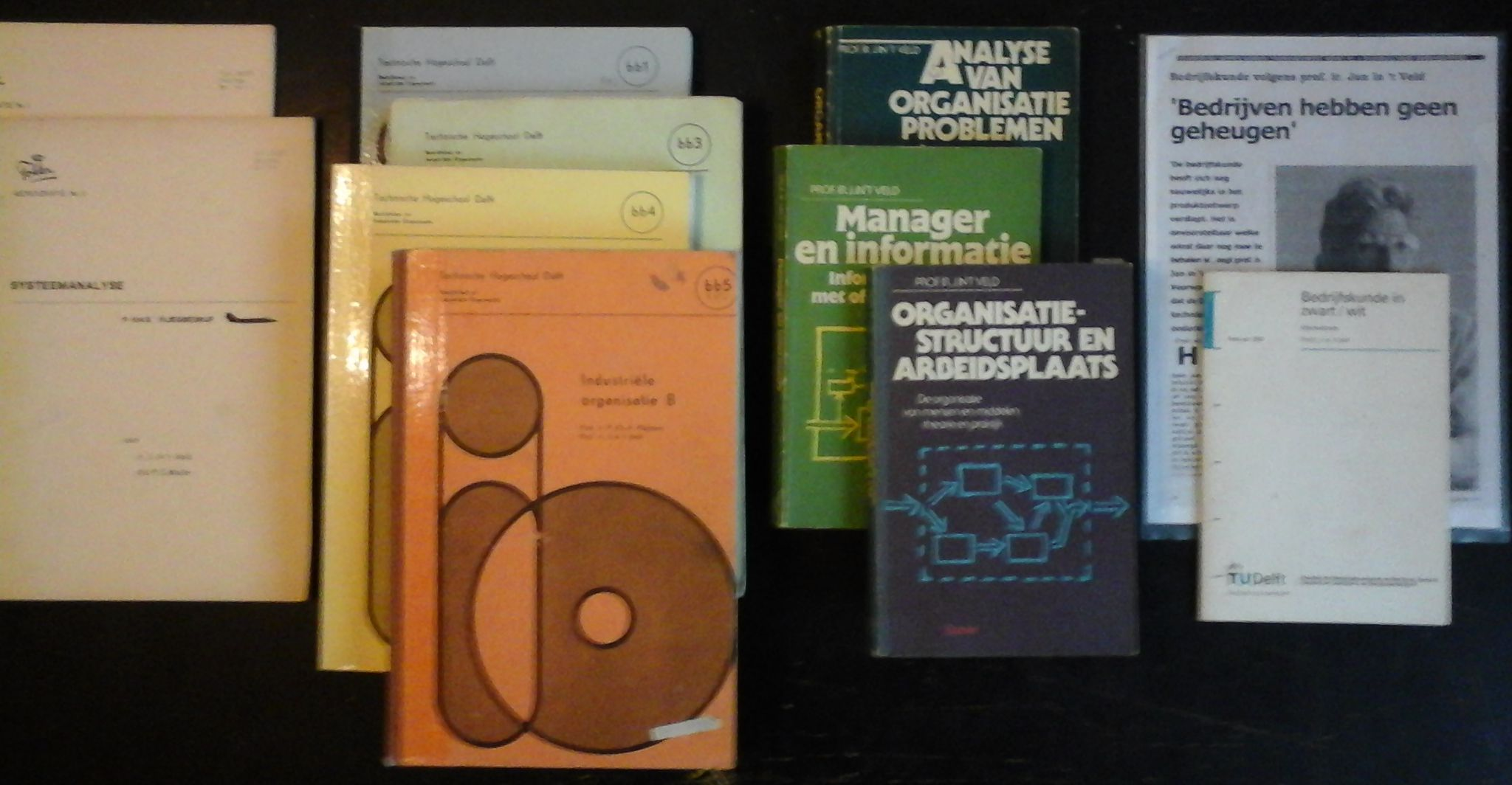 Collage of 11 works by Jan 't Veld from Fokker, TU Delft, Elsevier & KivI published from 1965 until 1994